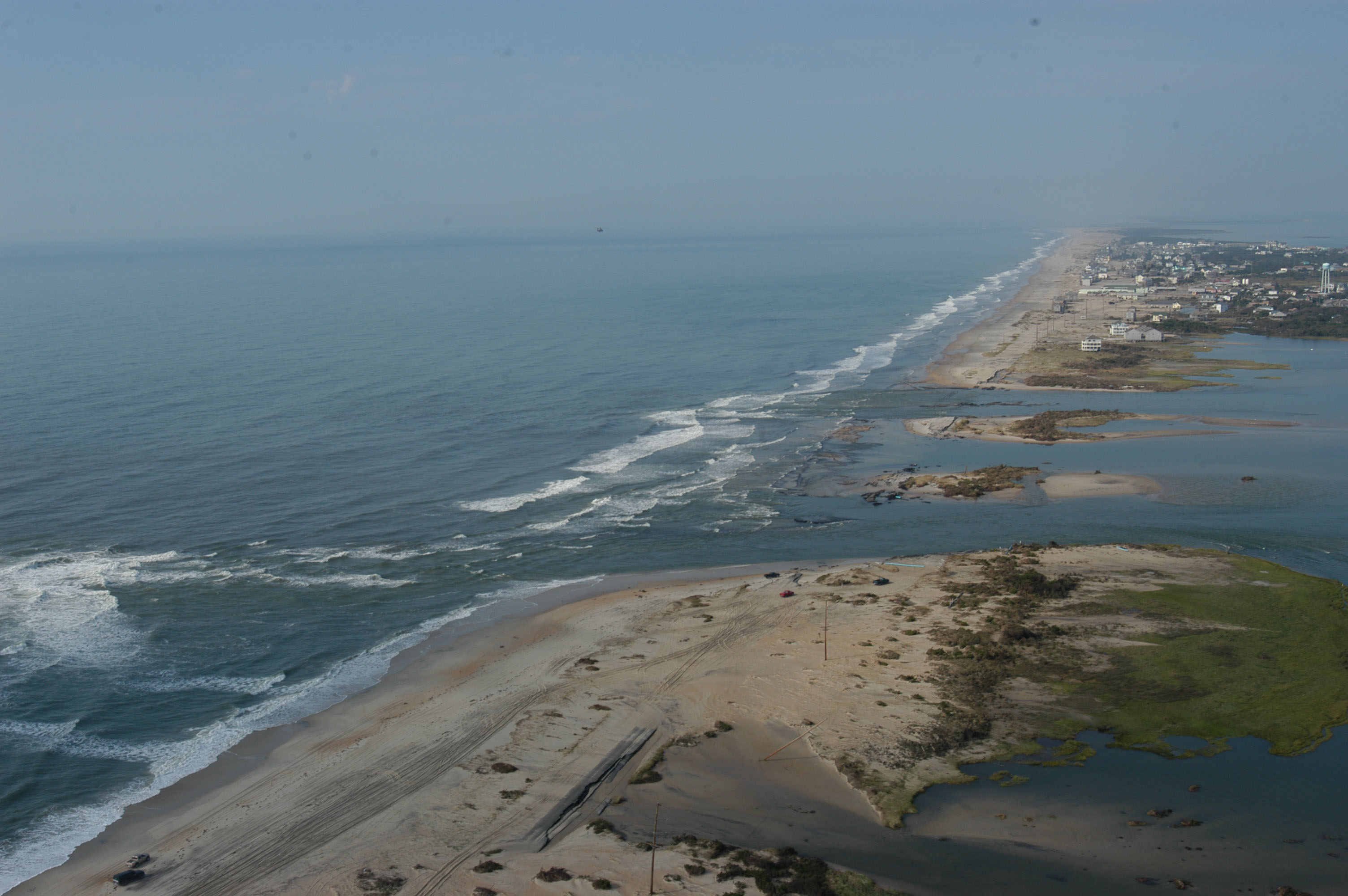 Hatteras Island, NC, September 20, 2003 -- Hurricane Isabel slammed into the Outer Banks of North Carolina washing out NC Highway 12 and breaching the island. Photo by Mark Wolfe/FEMA News Photo